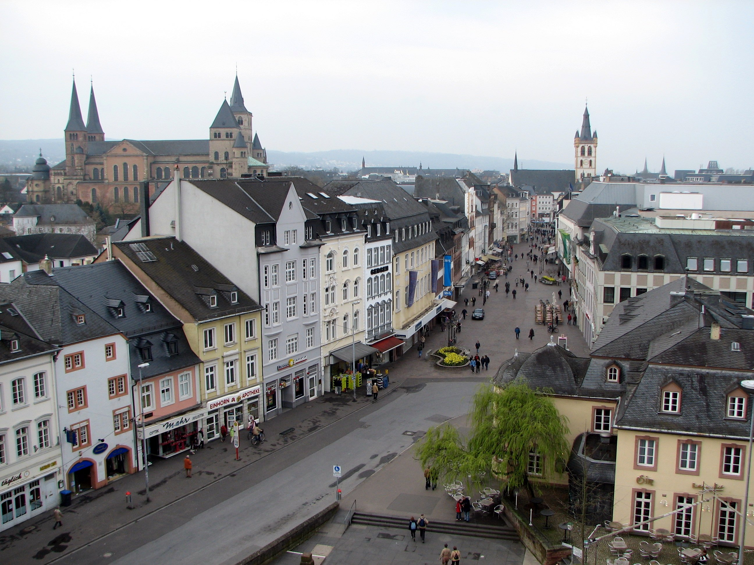 View of Trier from the Porta Nigra, with the Cathedral to the left.